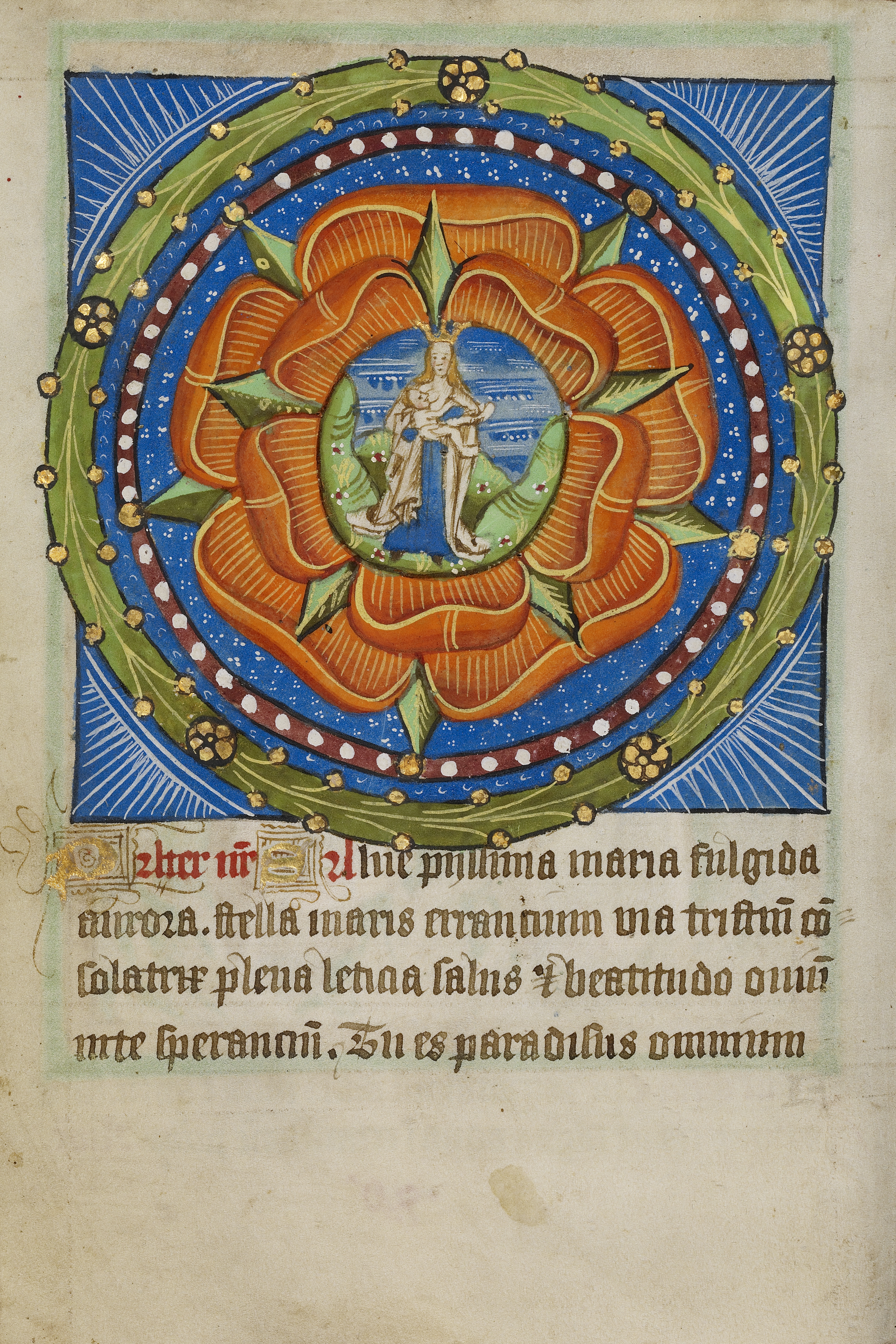 Rosary with Virgo Lactans